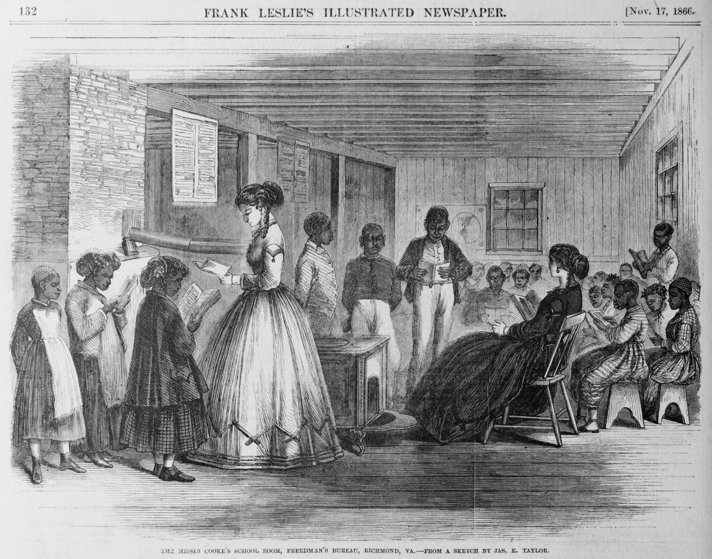 The Misses Cooke's school room, Freedman's Bureau, Richmond, VA. Illustrated in: Frank Leslie's illustrated newspaper, v.23, 1866 Nov. 17, p. 132.